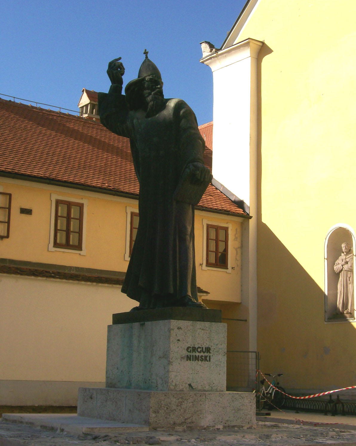 Grgur Ninski statue in Varaždin - work of Ivan Meštrović